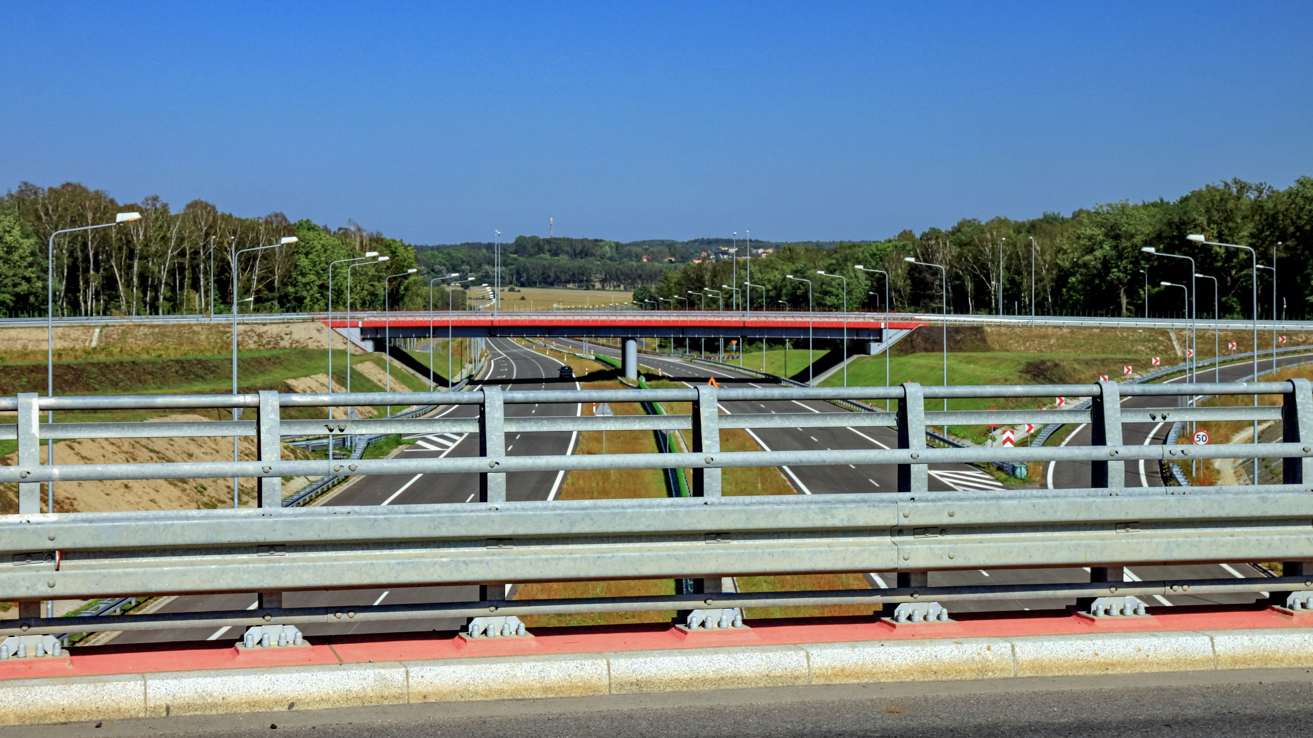 A view of the A1 motorway. Łaziska, Silesian Voivodeship, Poland.